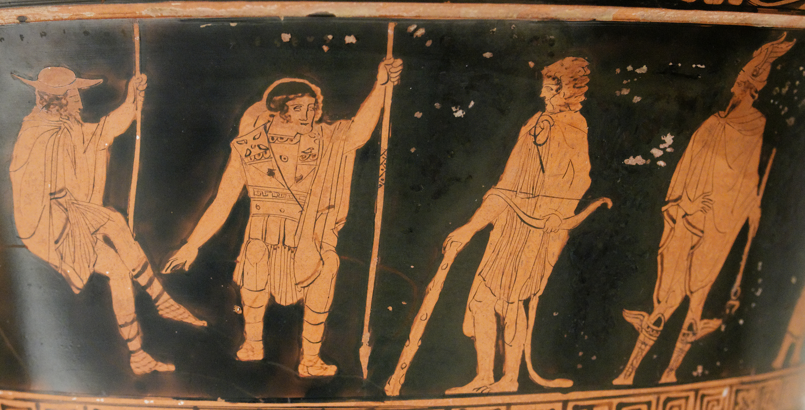 Herakles, Theseus and Pirithoos in Hades, with Hermes. Upper tier, side A of an Attic red-figure calyx-krater.